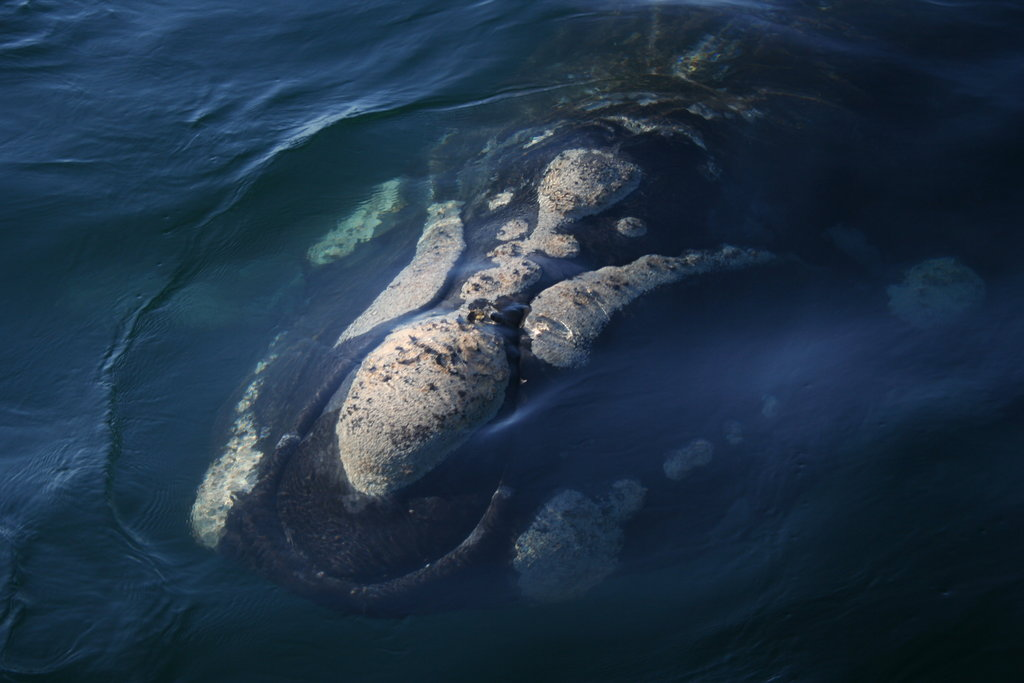 Southern right whale (Peninsula Valdés, Patagonia, Argentina)